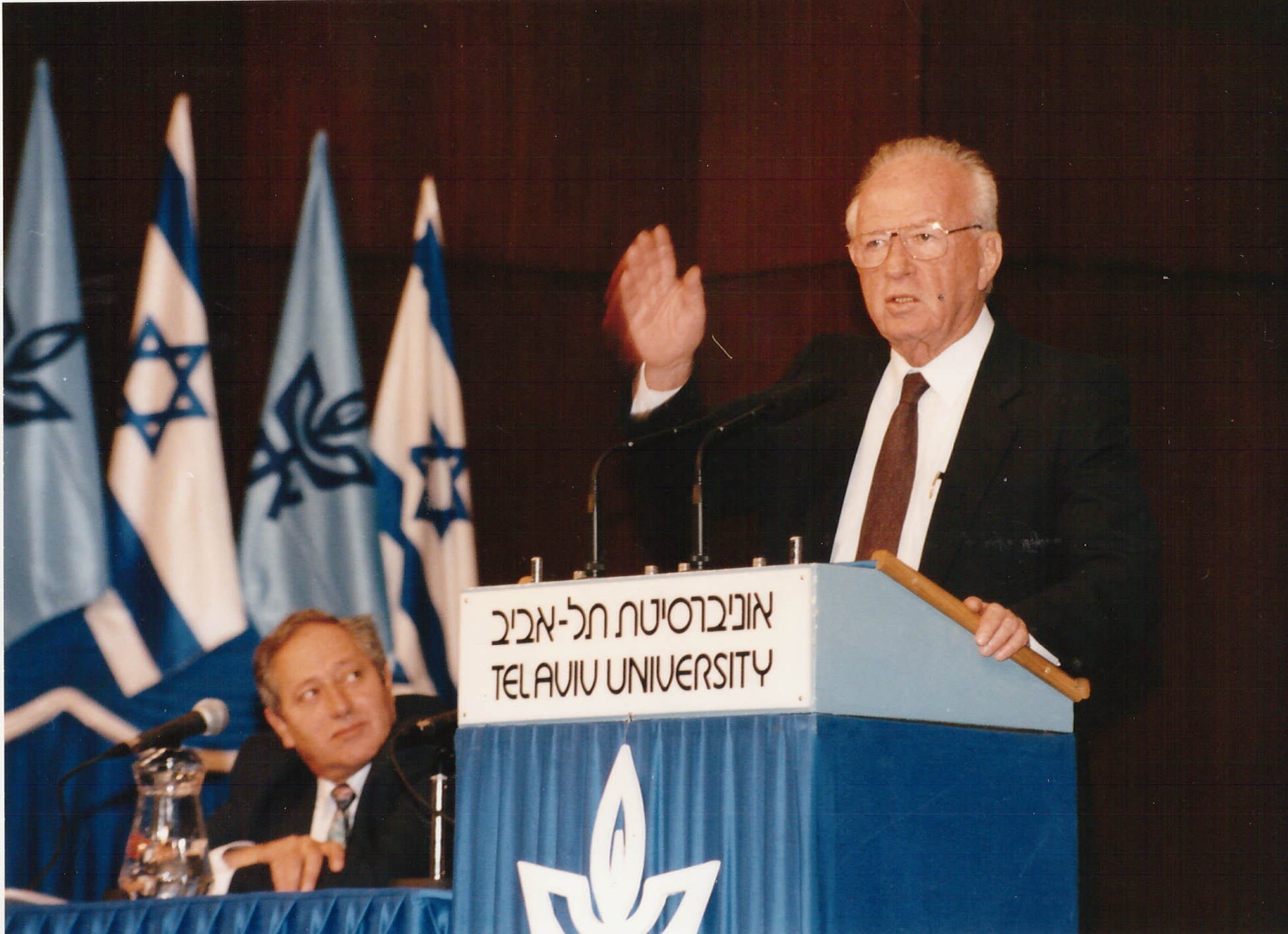 Former Israeli Prime Minister Yitzhak Rabin delivers one of his last public addresses at the MDC for Middle Eastern and African Studies.